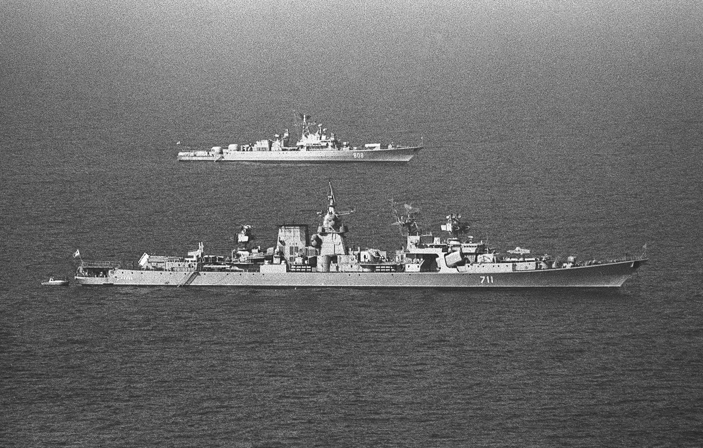 A starboard beam view of the Soviet Kara class guided missile cruiser Kerch at anchor, foreground, and a starboard beam view of the Krivak II class frigate Pytlivyy, background.